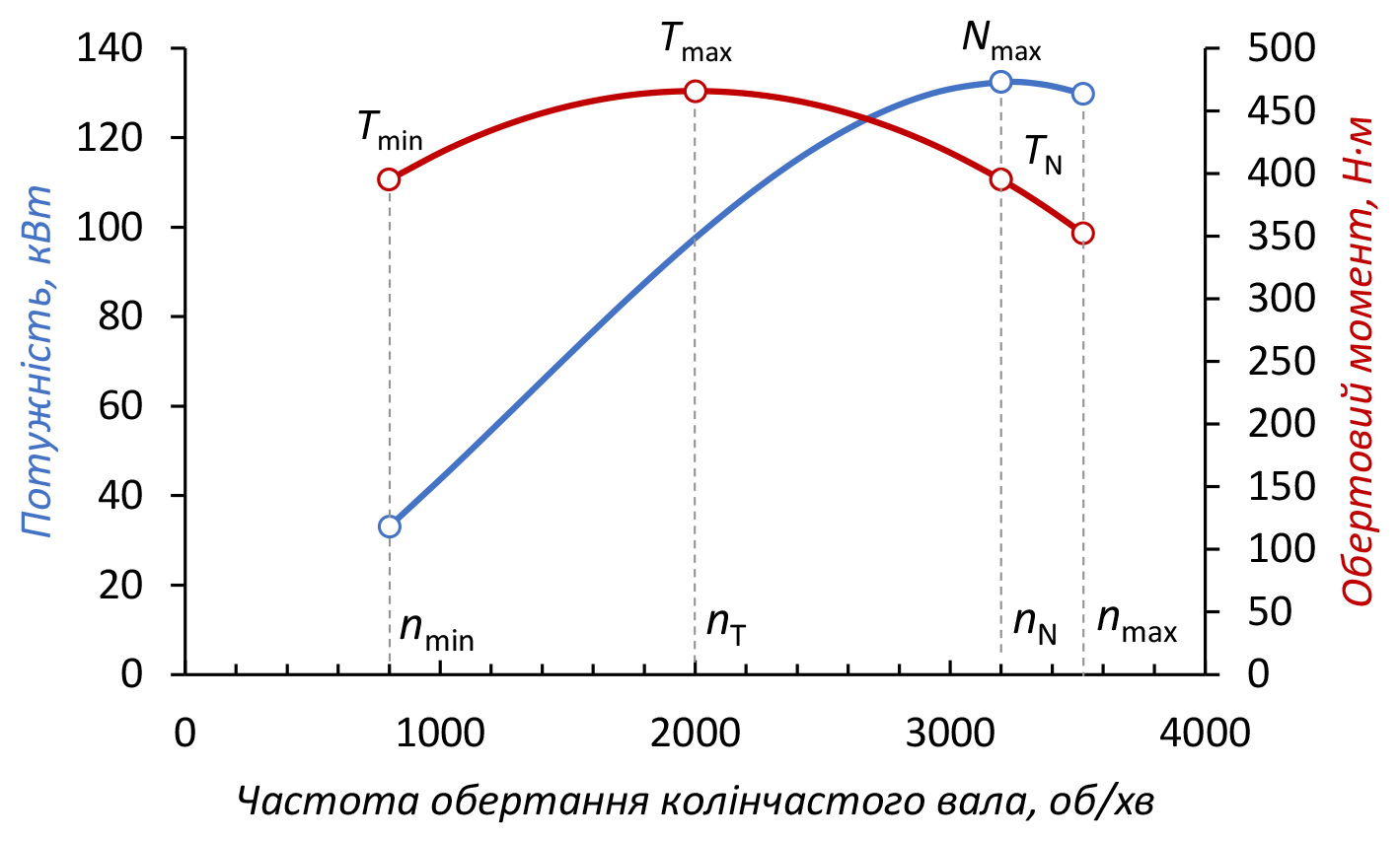 Power and torque curves of gasoline engine (180 h. p.)